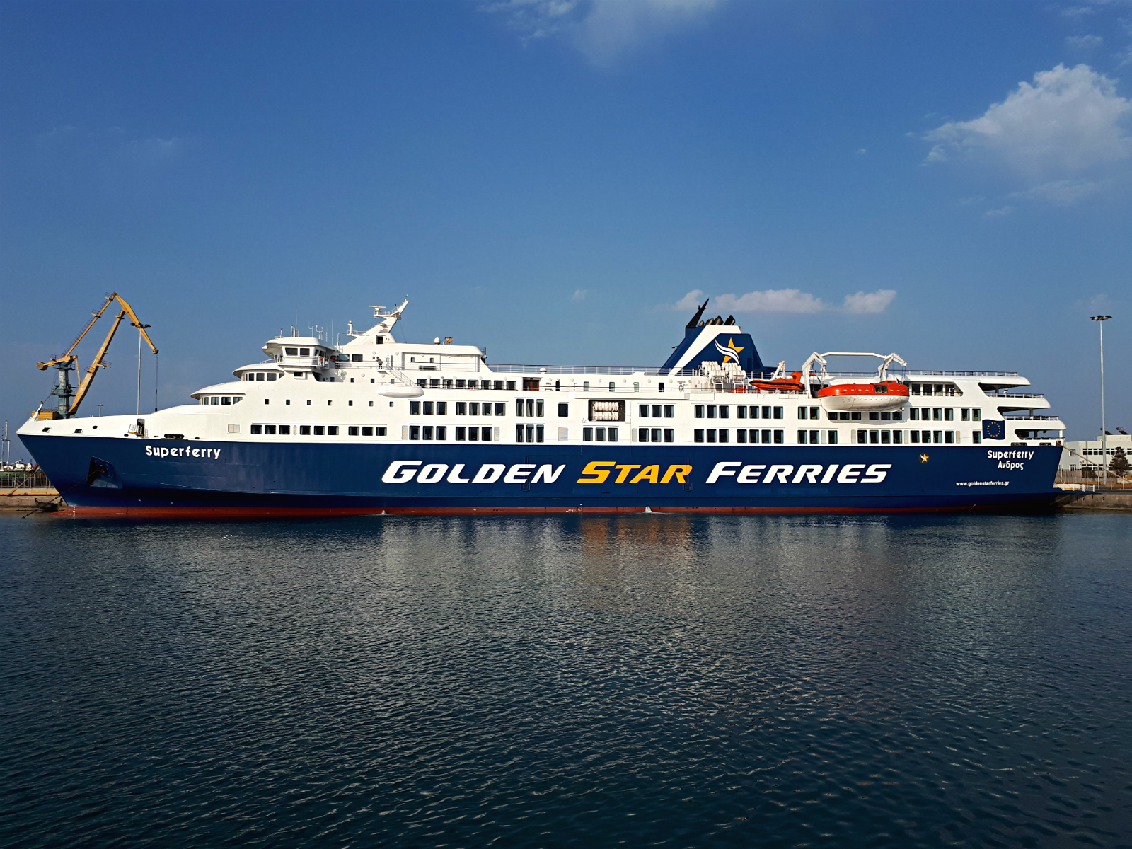 Golden Star Ferries F/B Superferry, SVCJ9, IMO 9110016, in the port of Heraklion.